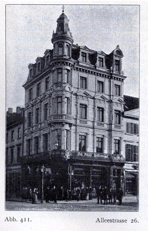 Wohn- und Geschäftshaus Alleestraße 26, Ecke Elberfeldstraße in Düsseldorf, erbaut 1878, Architekten Bernhard Tüshaus & von Leo von Abbema, Bauherr Firma Johann Peters.jpg